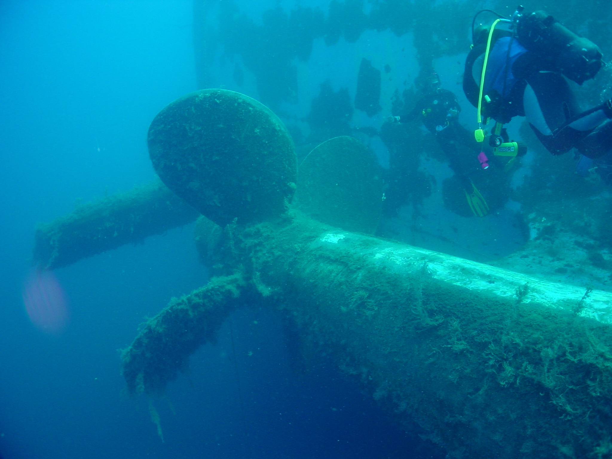 Wreck of the Zenobia in Larnaca Cyprus